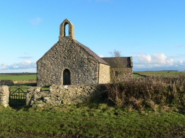 St. Mary's, Tal-y-llyn, Anglesey. A view of St. Mary's Church, Tal-y-llyn, Anglesey. This ancient Church has been restored by "Friends of Friendless Churches." Occasional services are held during the summer months.